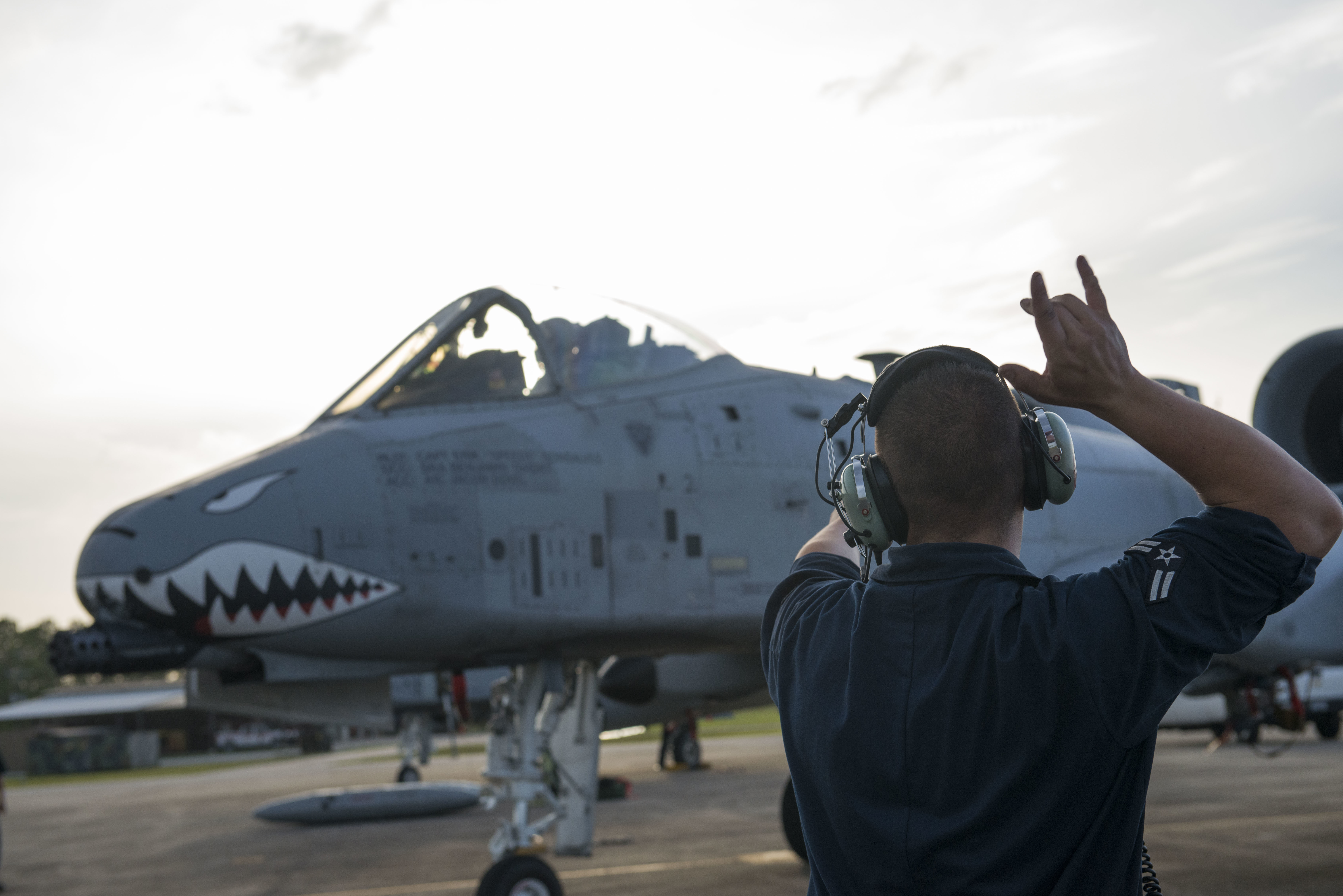 U.S. Air Force Airman 1st Class Jacob Dovel, 23rd Aircraft Maintenance Squadron crew chief, marshals Capt. Bass Farmer, 75th Fighter Squadron A-10C Thunderbolt II pilot, for takeoff during Exercise Dragon Strike June 11, 2015, at Avon Park Air Force Range, Fla. Dovel performed extensive pre-flight checks with Farmer before marshalling for takeoff. (U.S. Air Force photo by Airman 1st Class Dillian Bamman/Released)